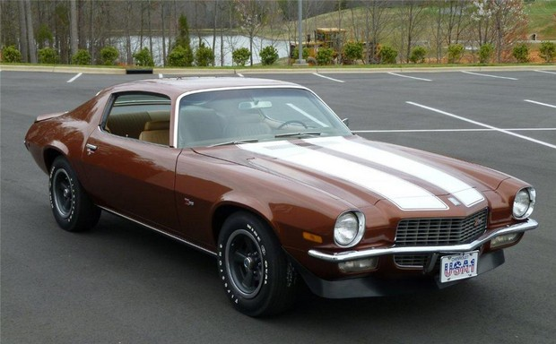 via Car pictures bit.ly/14AMzYK bit.ly/U9uhG7